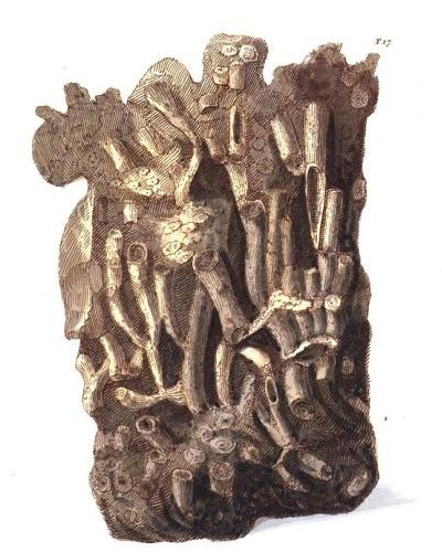 Petrificata derbiensia: or, Figures and descriptions of petrifactions ... By William Martin - Fossil coral The original a Madrepora compound fasciculate Stirps cauliform or stalk like round somewhat branched striated slightly in a longitudinal direction flex uose and in some parts coalescent The stars are terminal turbinato concave and reticulated